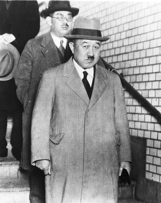 Japanese Major General Doihara Kenji in Peking.